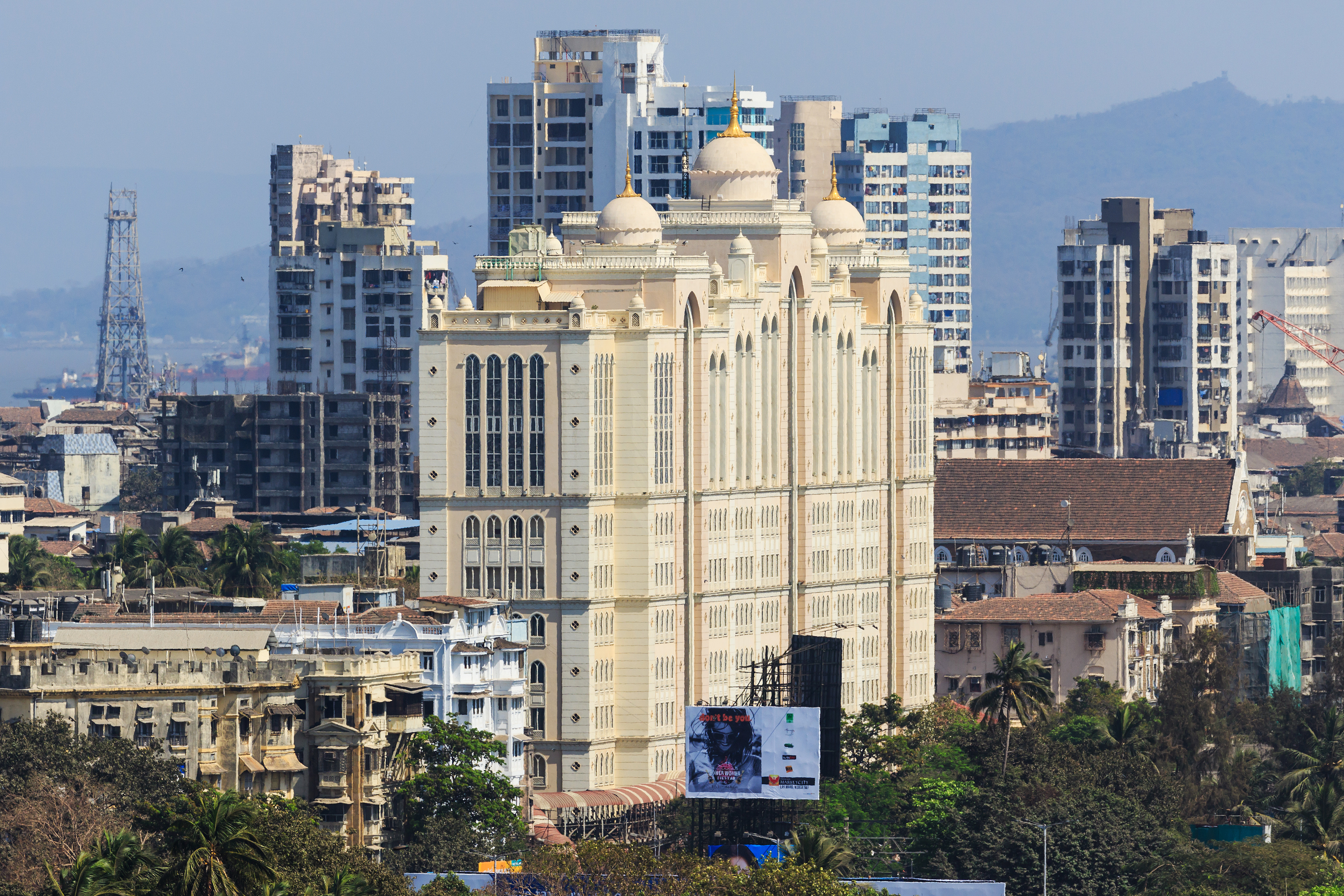 View from Malabar Hill to Saifee Hospital in Mumbai, India